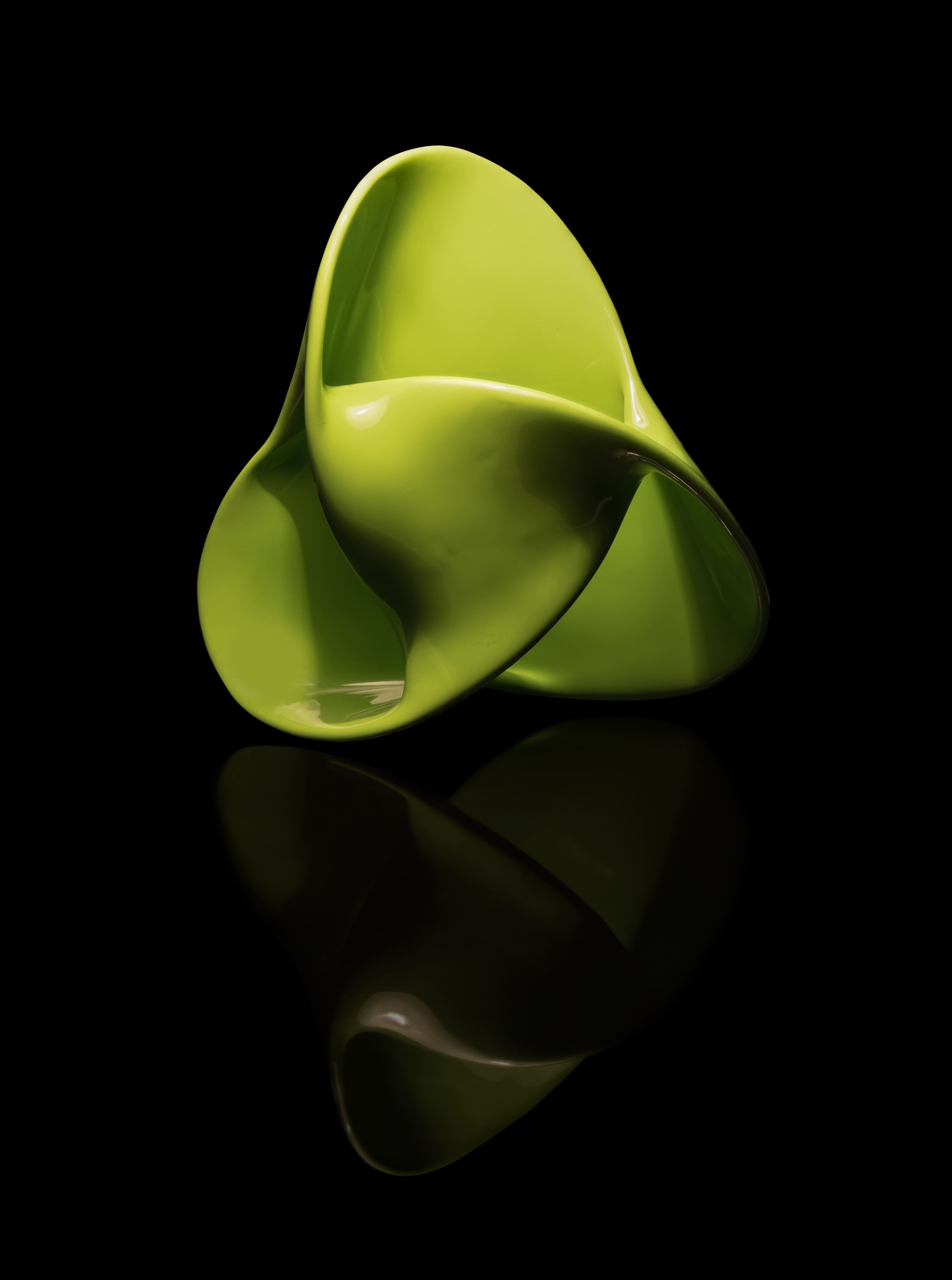 Orientable surface whose boundary is the trefoil knot, Matemateca IME-USP collection.